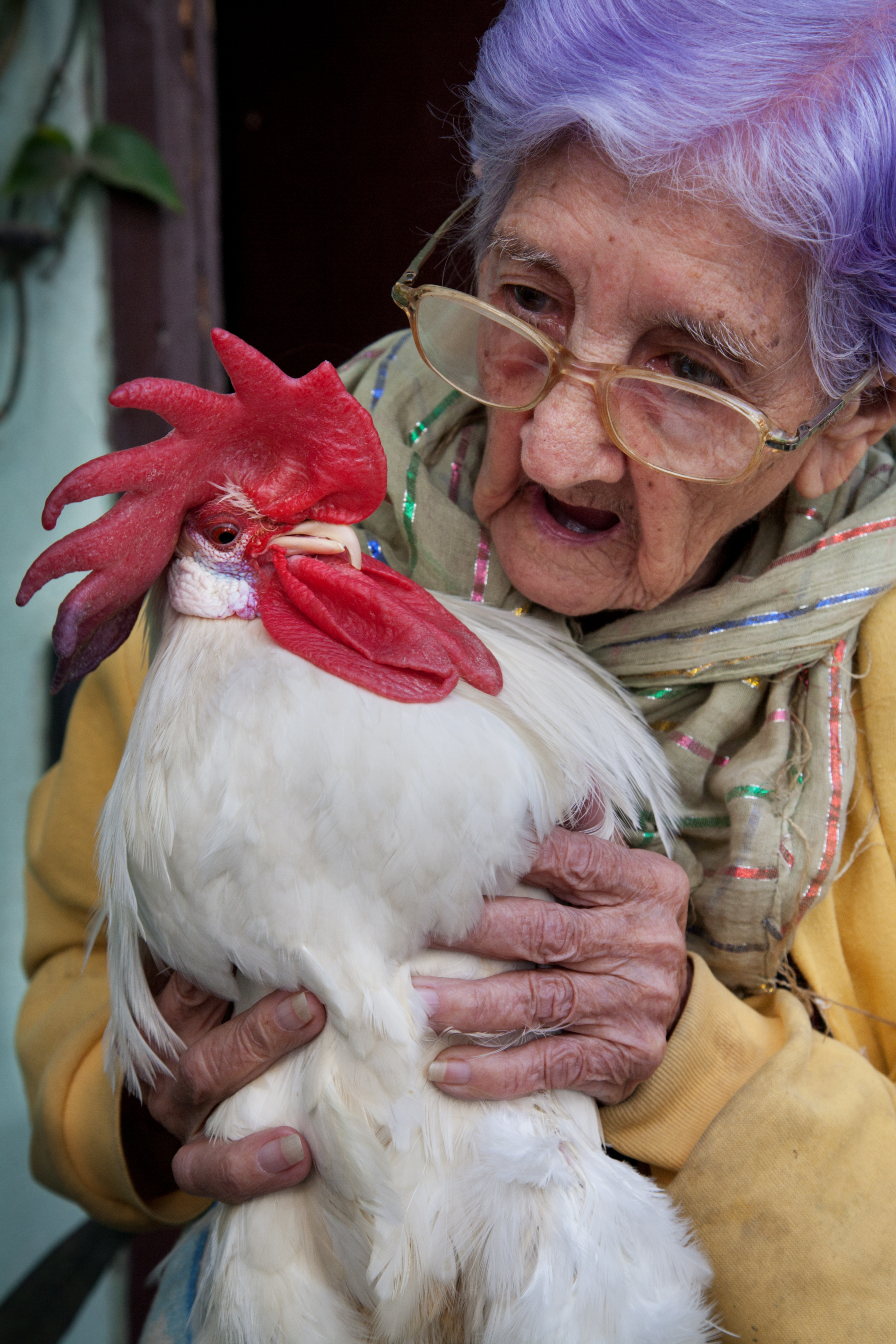 A 95 year old woman with her pet rooster. Havana (La Habana), Cuba